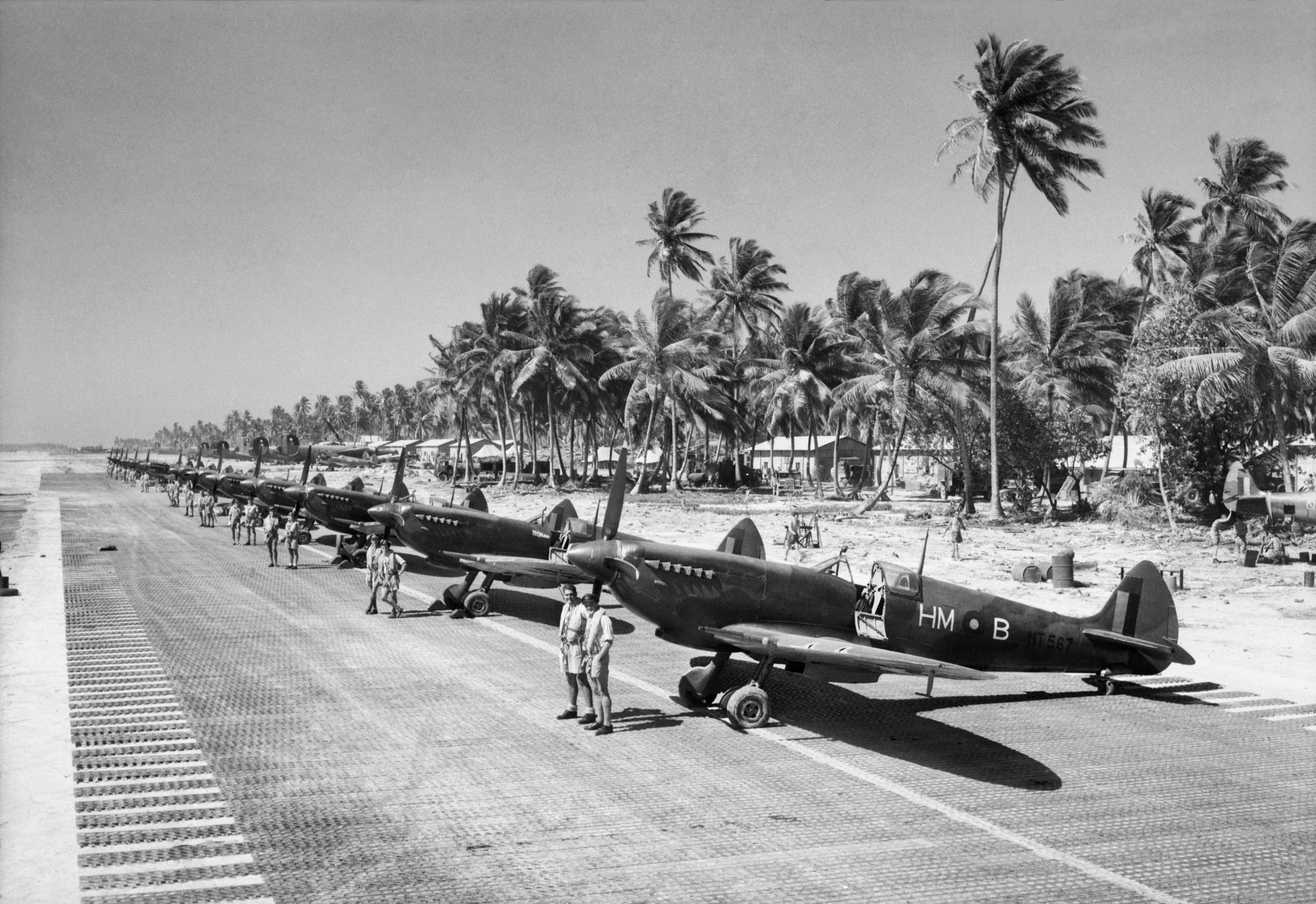 Royal Air Force Operations in the Far East, 1941-1945 Spitfire Mk VIIIs and personnel of No. 136 Squadron RAF lined up on a recently-laid PSP airstrip on Brown's West Island, Cocos Islands, in the Indian Ocean.